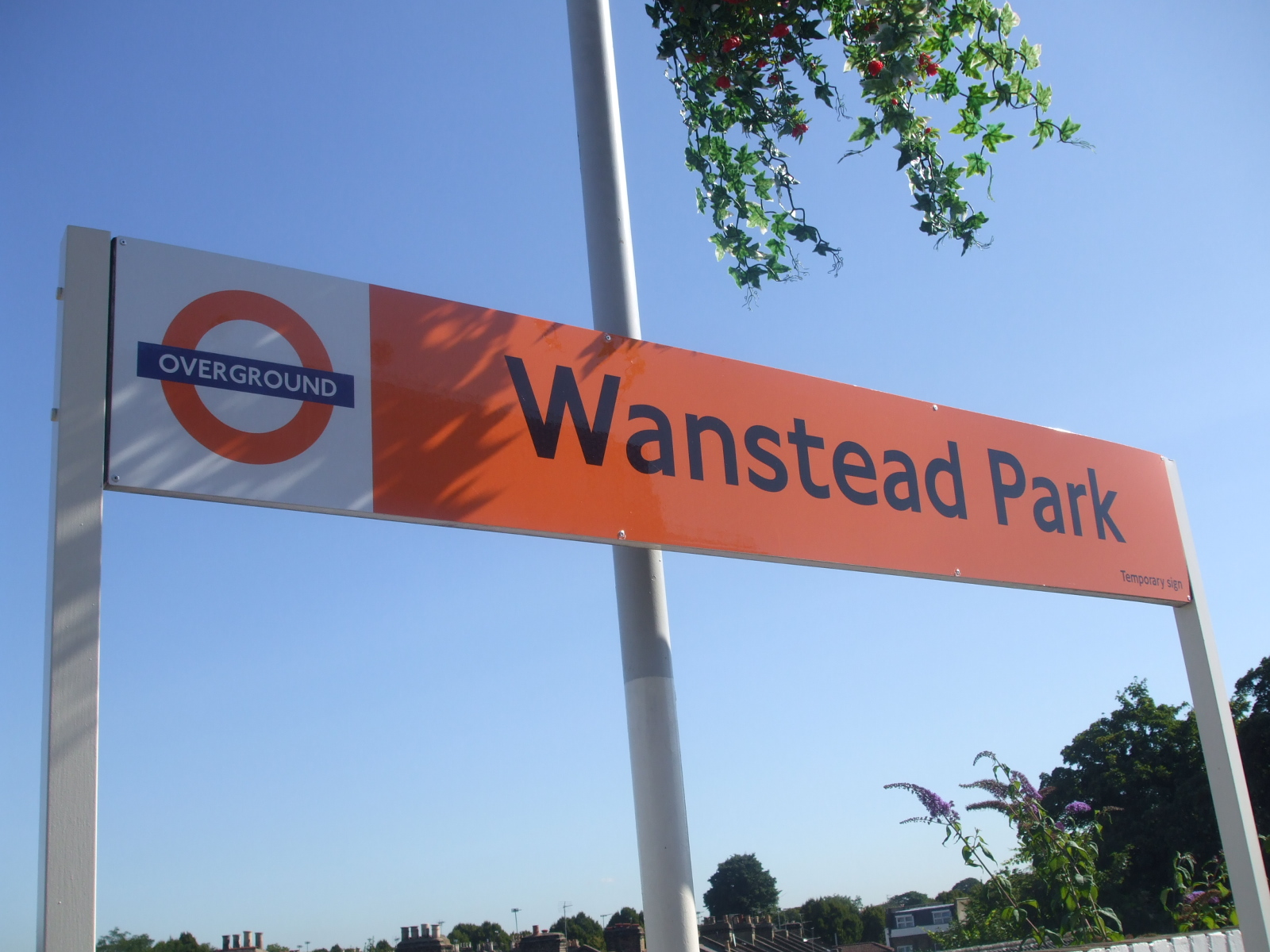 Wanstead Park station platform signage (temporary, photo taken August 2008)